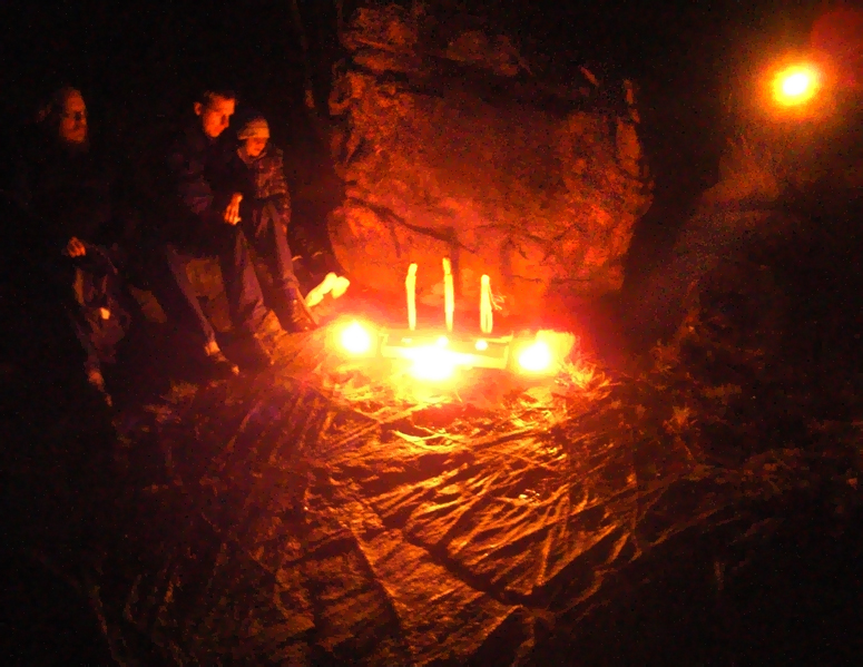 Forn Sed: Álfablót at boulder. The picture is taken at an álfablót held by the Gothenburg kindred Godthiod at 7th November 2009 at a boulder at Getsjön (i.e. Goat Lake), Tunge parish, Ale hundred, Västergötland, Lilla Edet municipality, Västra Götaland, Sweden. Álfablót is a Norse ceremony honoring the dead, ancestors, and elves, and it's corresponding to the Celtic Samhain. The boulder has a tradition of being thrown by a giant. It has the number "Tunge 36:1" in Swedish National Heritage Board's database over ancient monuments. Godthiod was a kindred within the Swedish Asatru Assembly (now Forn Sed Sweden). The altar consists of three cult images of the three Norns (Urð, Verðandi, and Skuld, the Norse goddesses of Fate) and three lighted cressets on the ground. These are placed in front of the boulder. The boulder is used as a "blóting stone" during the ceremony, and is thus receiving libations. To the left are some of the participants. In the background to the right is a lighted torch. In the foreground we can see the strange pattern in the bedrock of the place. The photo is taken without a flash before the ceremony.